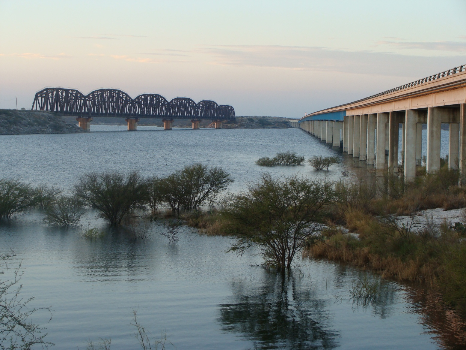 Amistad reservoir, Texas